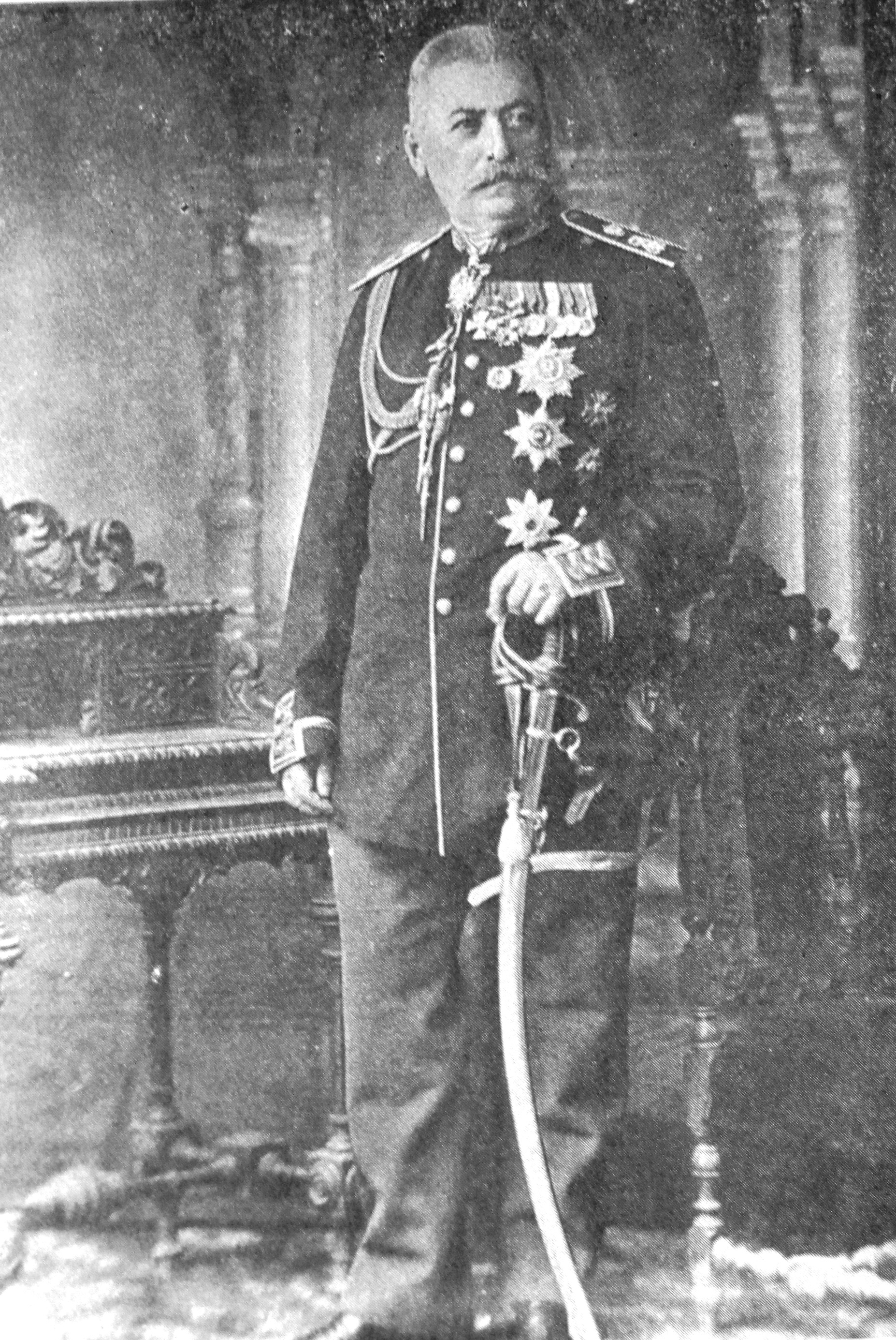 Prince Levan Melikishvili (1817-1892)